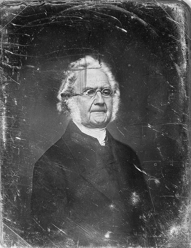 Daguerrotype of man believed to be Levi Lincoln Jr., Governor of Massachusetts, by photographer Mathew Brady's studio. Lincoln is identified by Kunhardt in "Mathew Brady and His World." Library of Congress Prints and Photographs Division, Library of Congress, Washington, D. C.